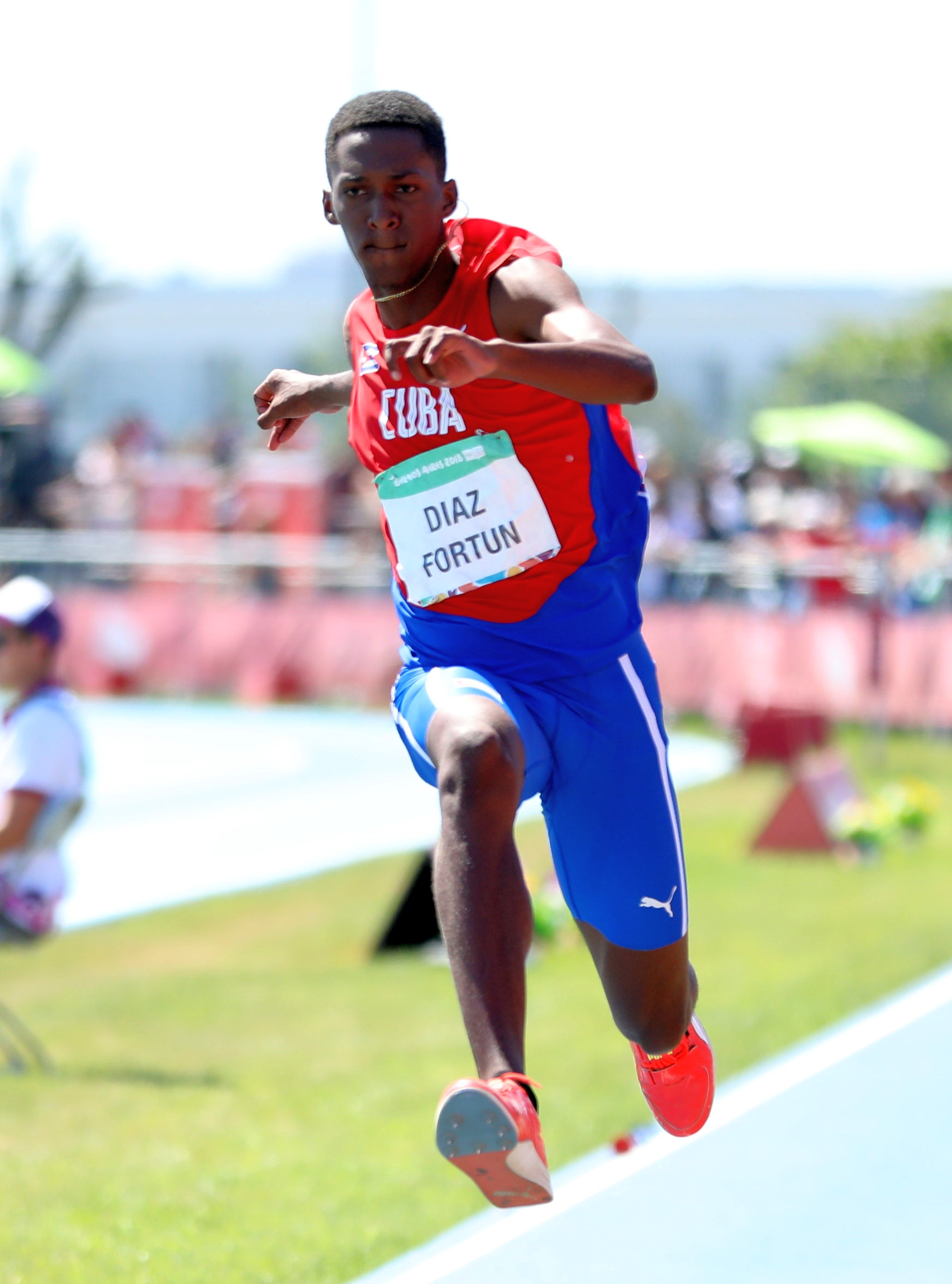 Boys' Athletics, Triple jump: Stage 2